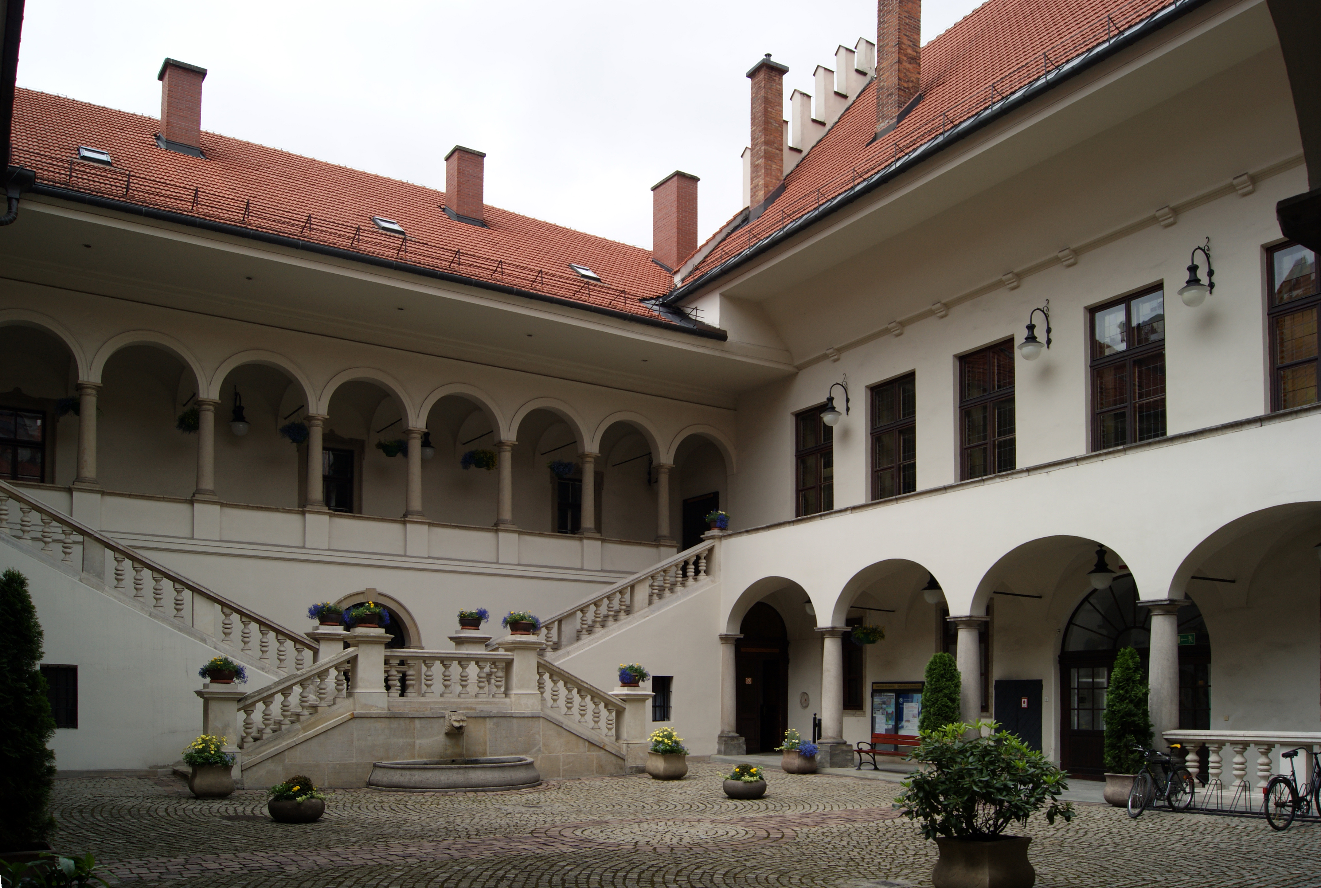 Jagiellonian University, Collegium Nowodworskiego (courtyard), 12 św. Anny street, Old Town, Krakow, Poland